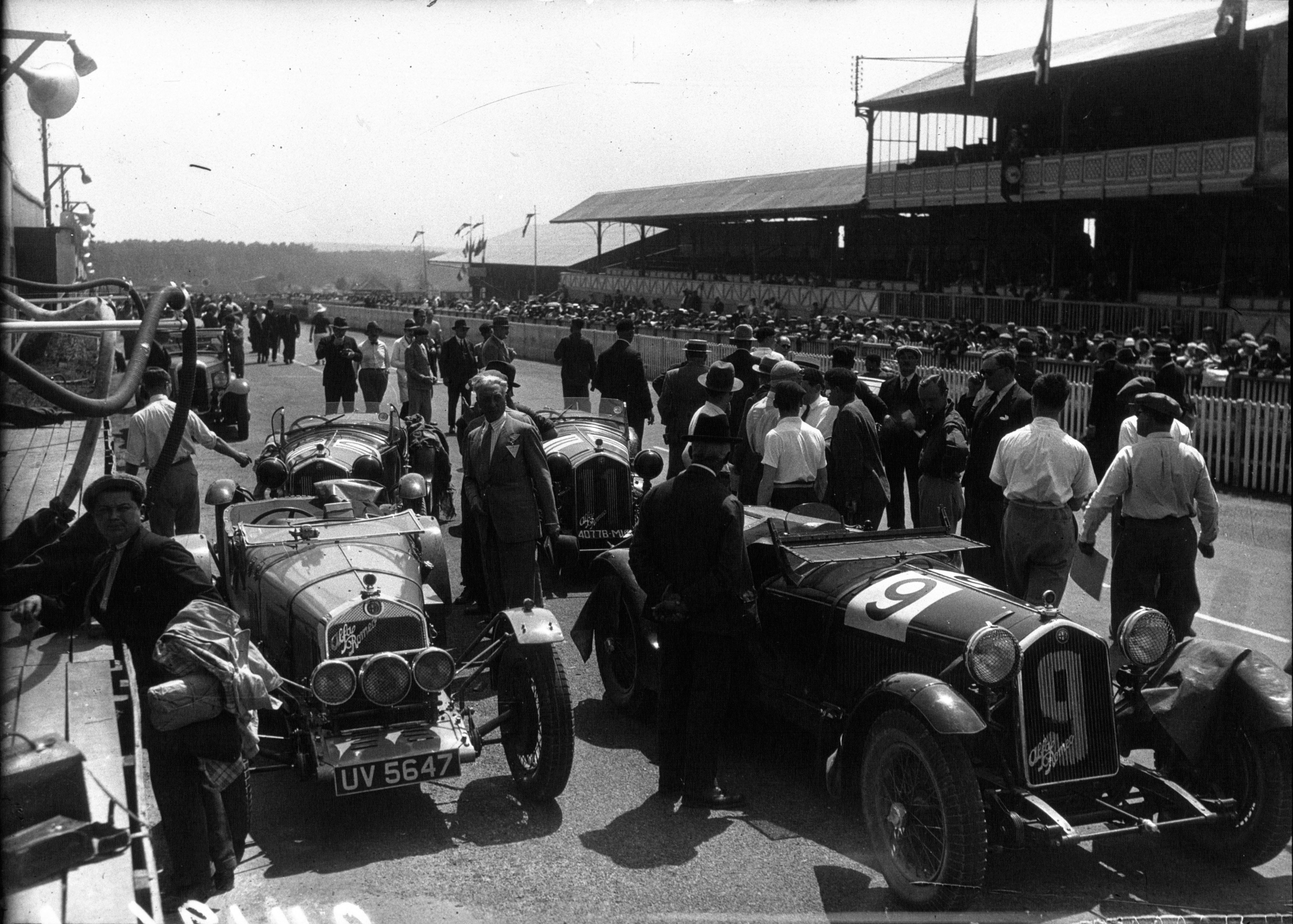 Grid at the 1932 24 Hours of Le Mans.